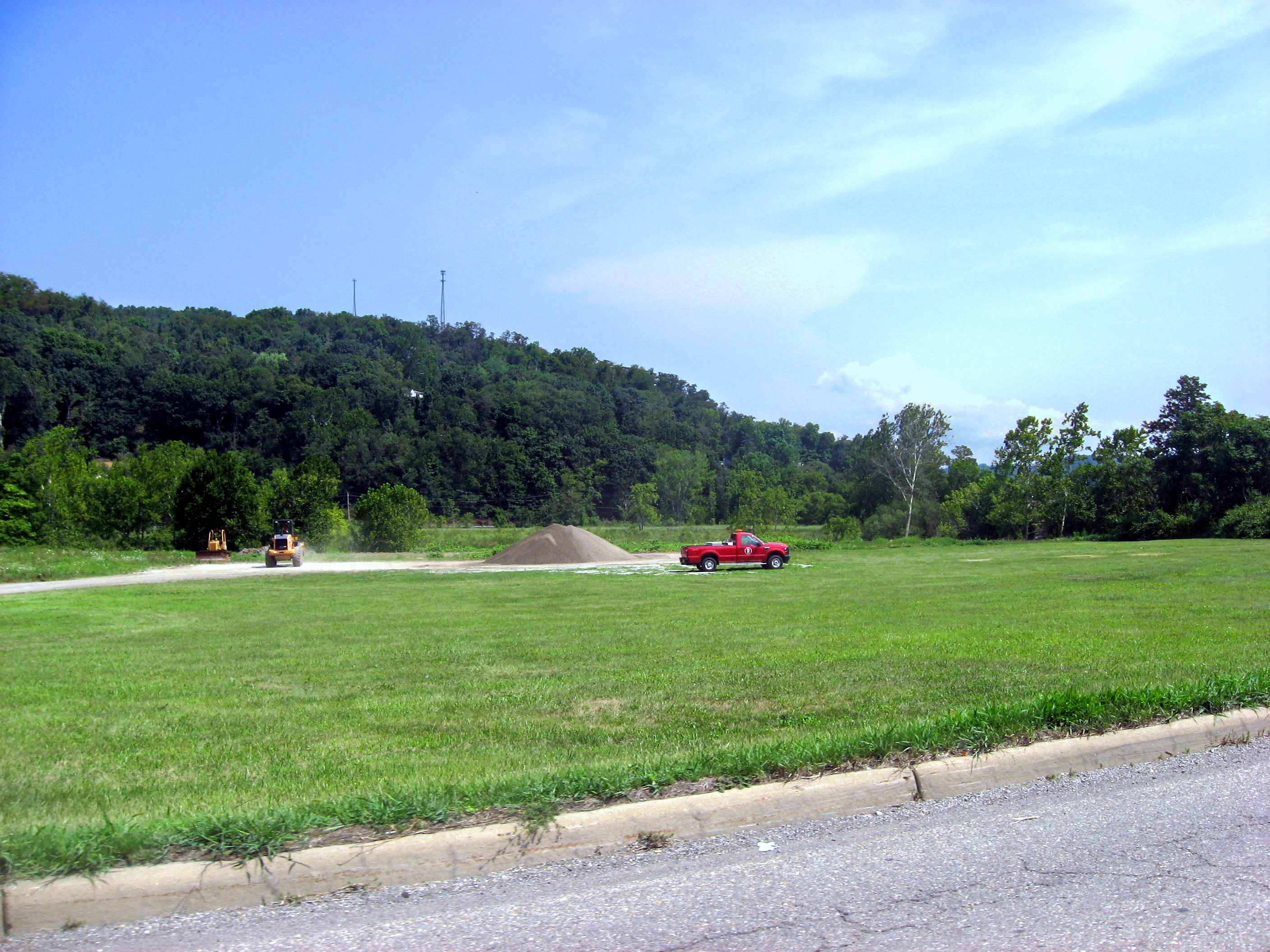 Site of the Stringer Stone House, which was formerly located at 224 Main Street in Rayland, Ohio, United States. Built in 1836, it was listed on the National Register of Historic Places in 1974; it burned in 1982, but it remains on the Register.